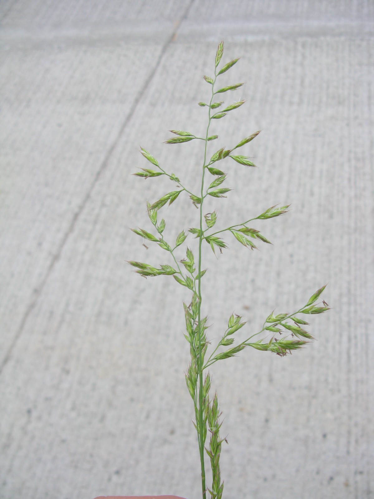 Flowerheads are loose to spreading panicles to 43 cm long.